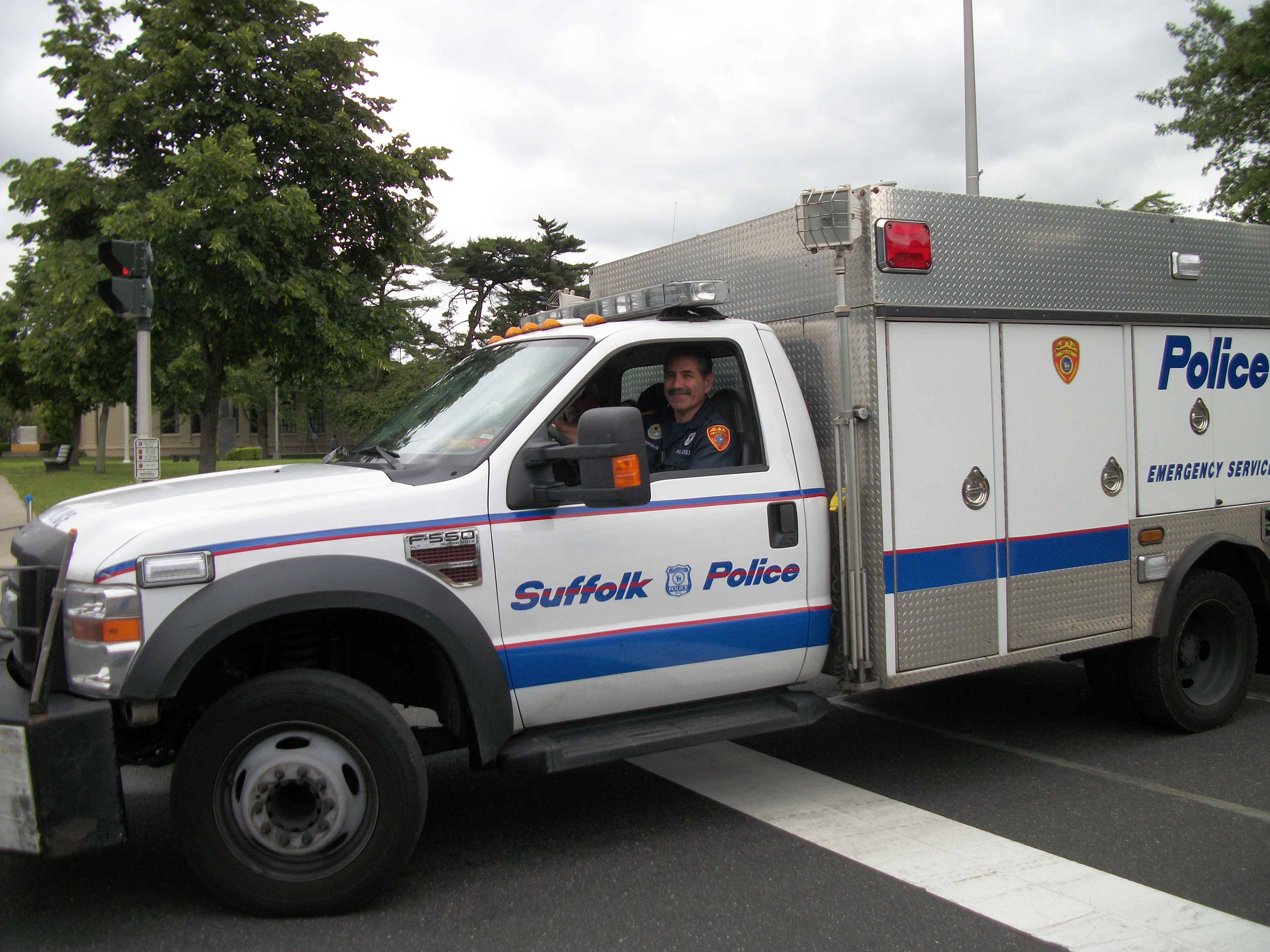 Ford F-550 Super Duty Emergency Services Unit truck of the Suffolk County Police Department as it leaves the Town of Islip Town Hall in Islip, New York. I really wanted a contemporary Suffolk County Police Car (i.e.; Ford Crown Victoria with current SCPD colors), but I wasn't able to capture one that stayed still long enough.